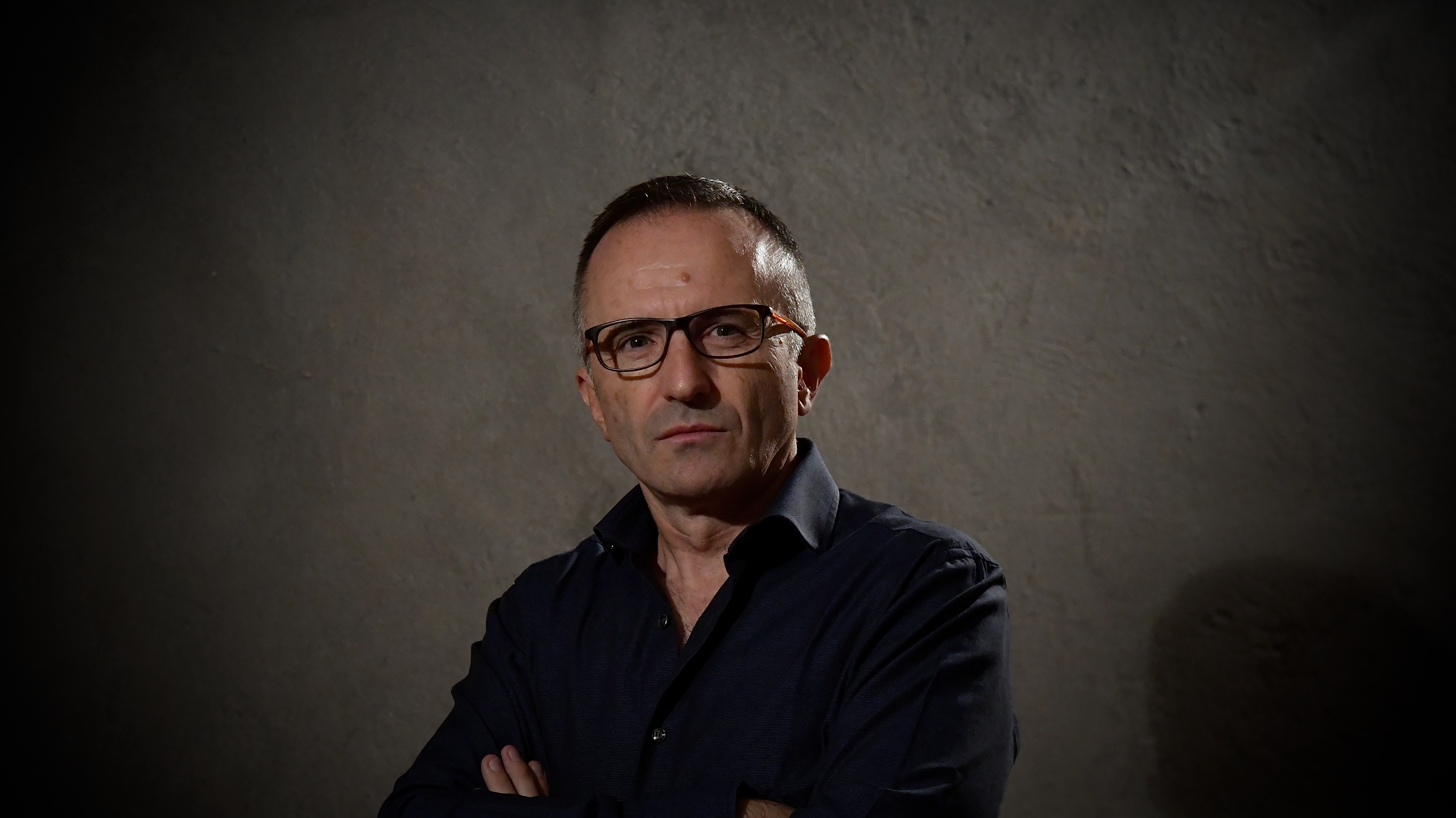 by Fabrizio Gatti